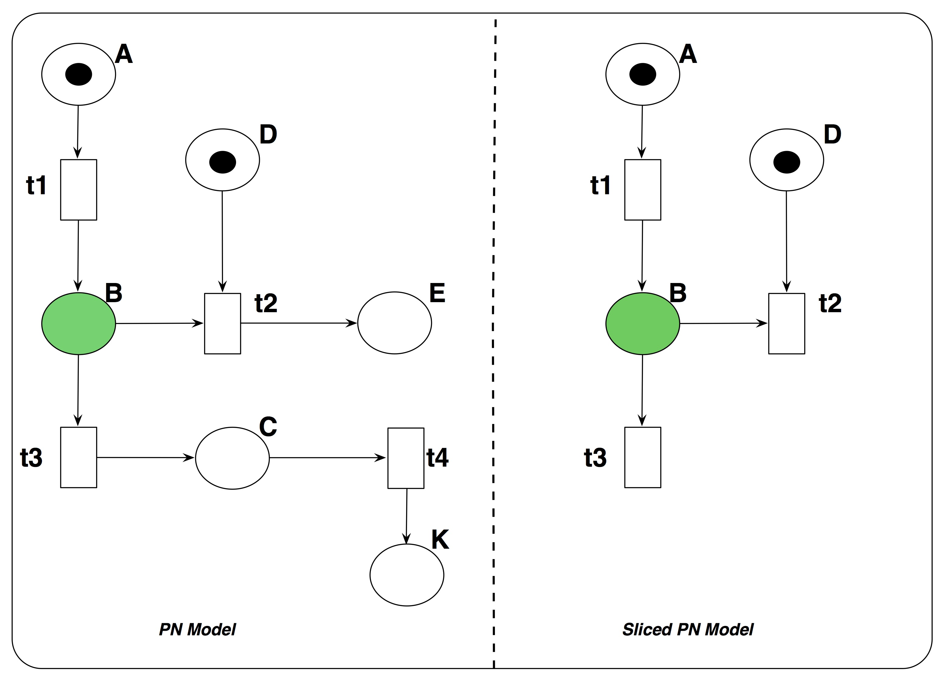 Example Petri net Model and its sliced net by applying basic slicing algorithm.